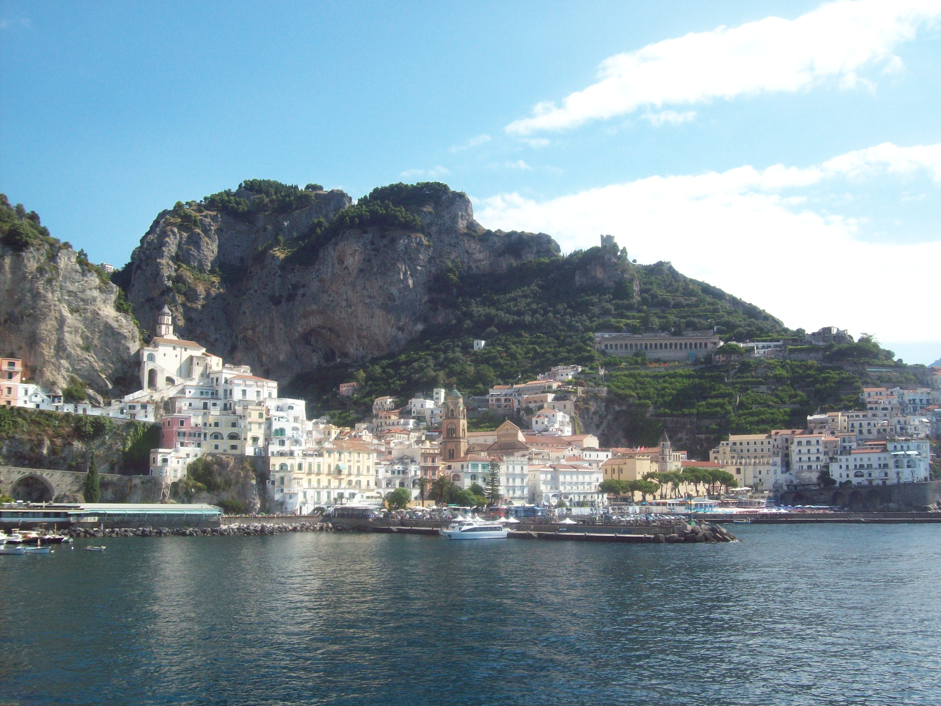 Amalfi